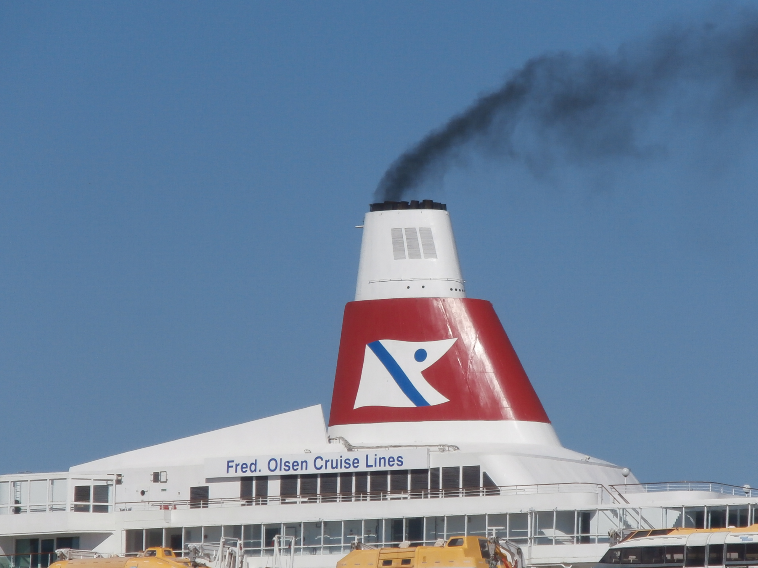 Boudicca funnel, Tallinn 12 June 2015